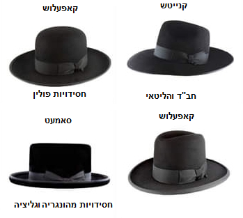 Orthodox Jewish hats